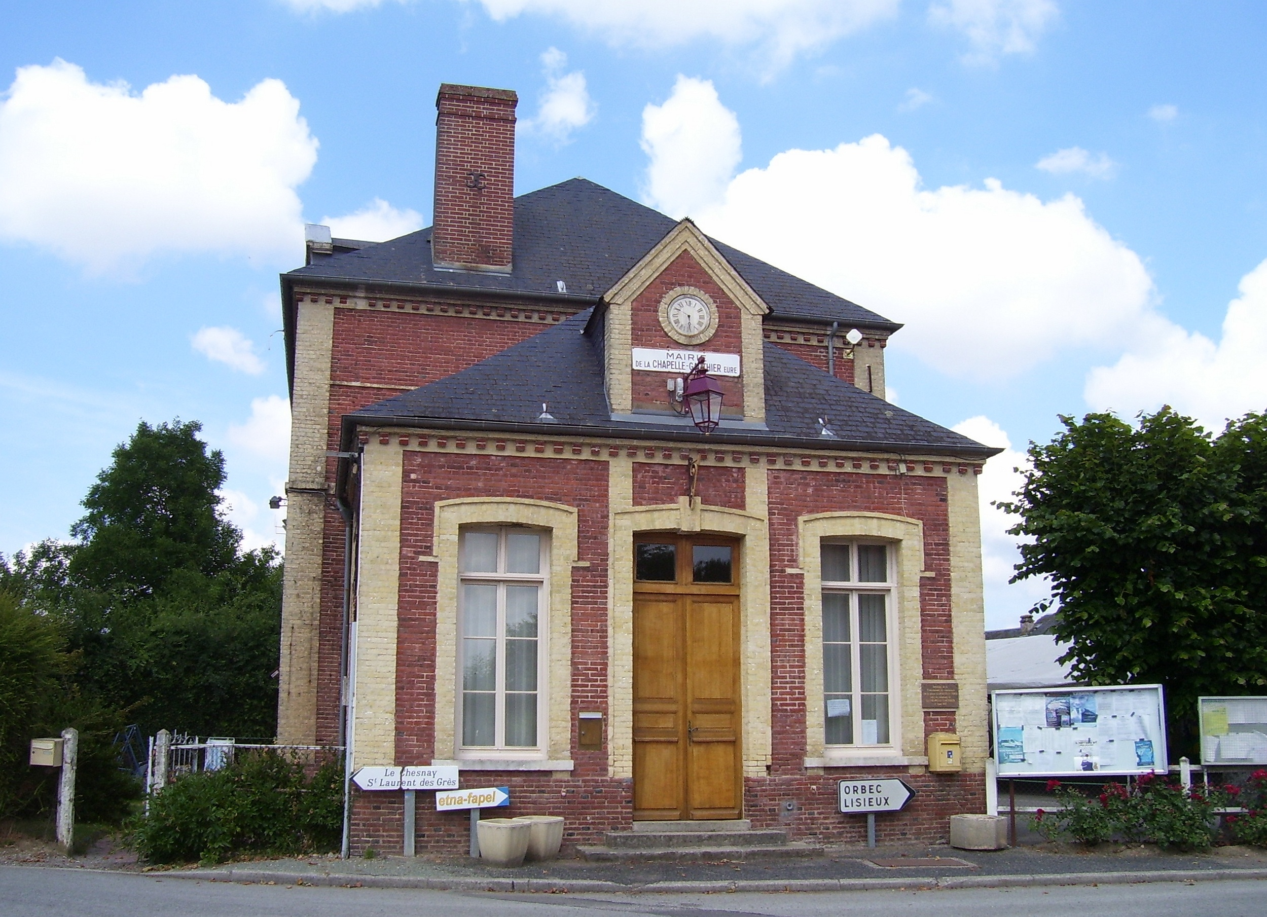 Town hall of La Chapelle-Gauthier (département Eure, Haute-Normandie, France).